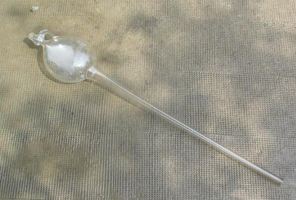 A glass wine sampler tube